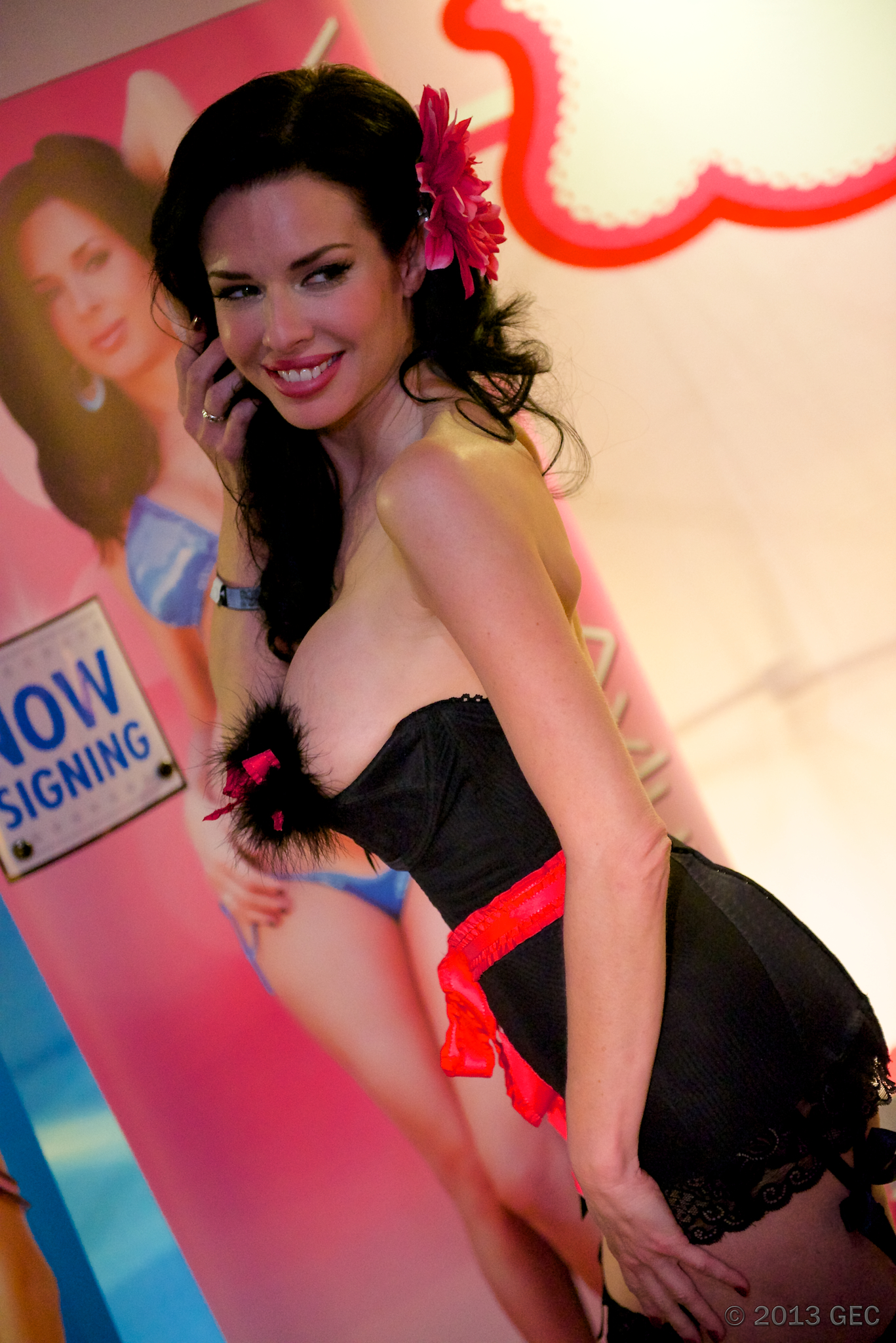 2013 AVN Adult Entertainment Expo AEE at Hard Rock Hotel - Las Vegas. 2013 © GEC.